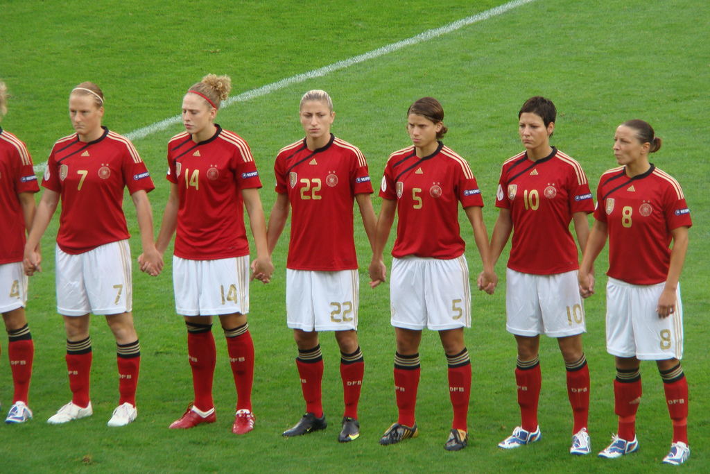 Germanys women soccer national team before playing France at Women's Euro 2009 in Tampere, Finland